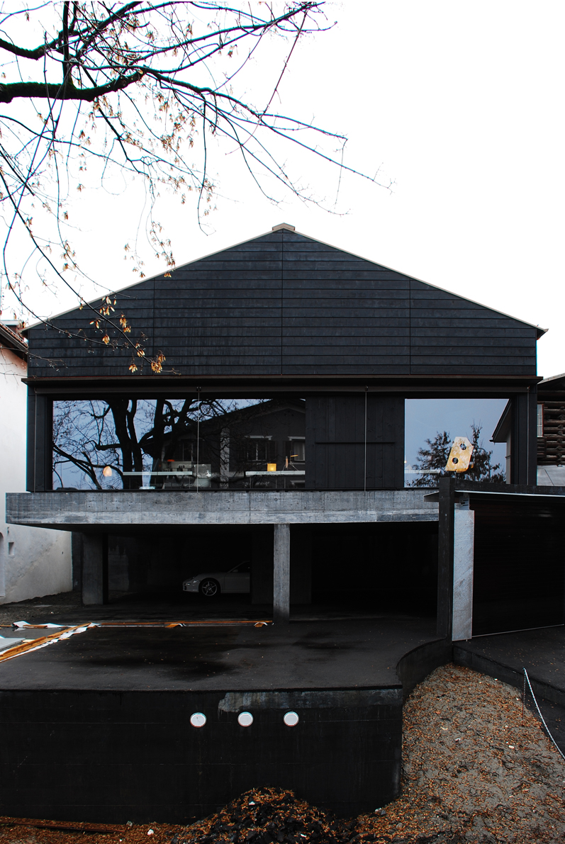 Office of Valerio Olgiati, Flims Switzerland. Architect: Valerio Olgiati, 2008